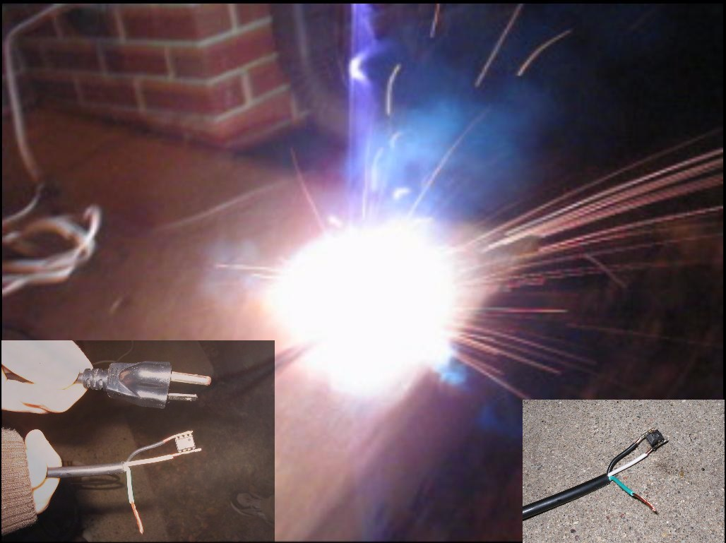 We conducted an experiment to see if we could conjure up some magic smoke. This image clearly shows a certain electronic component (i think a 550-series counter) before, during, and after magic smoke release. This image is meant to be purely educational and is completely copyright free.